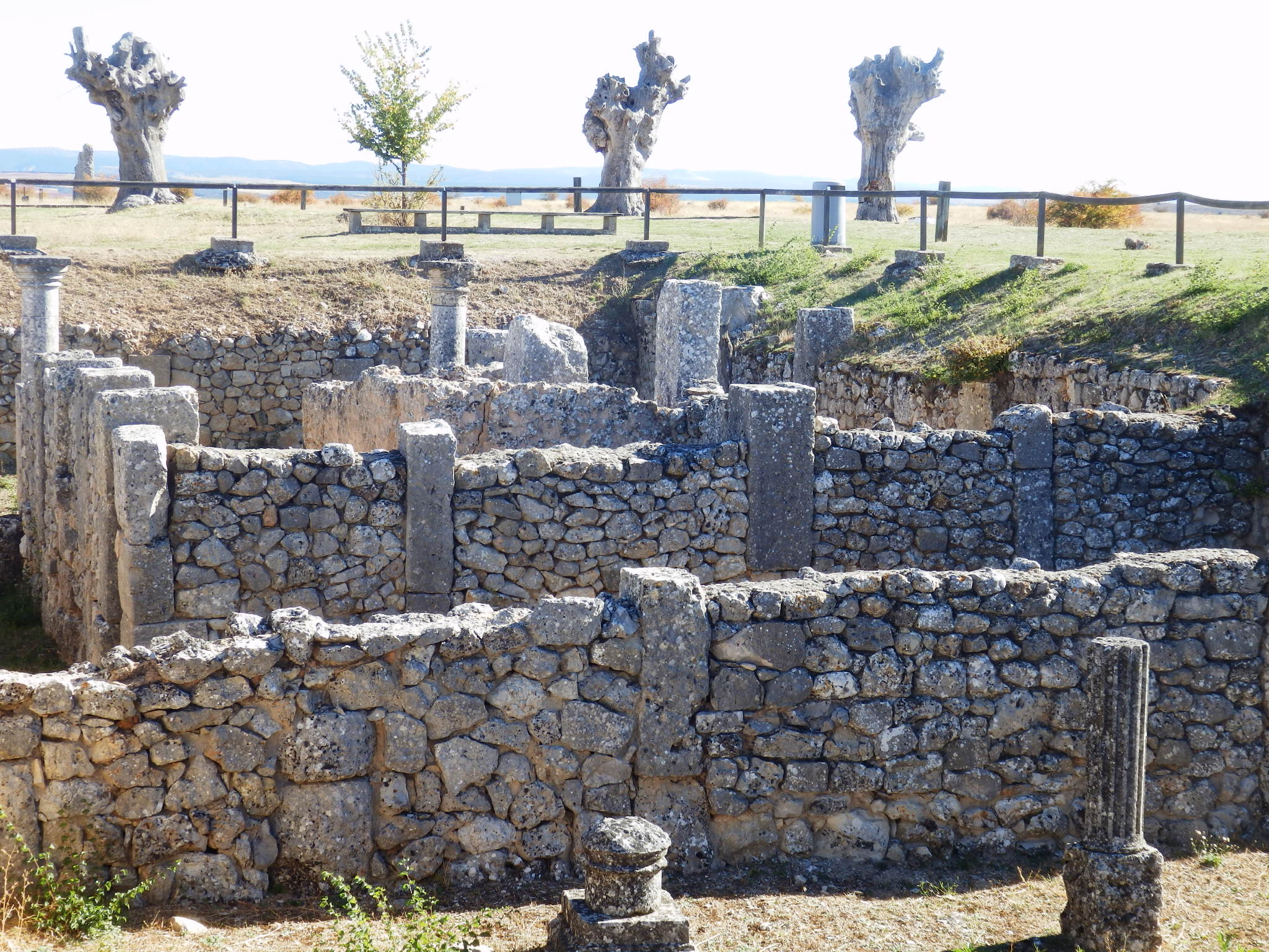 Corner of Clunia